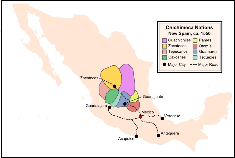 Map depicting geographic expanse of Chichimeca nations, ca. 1550. In the of northern Viceroyalty of New Spain (Colonial Mexico).